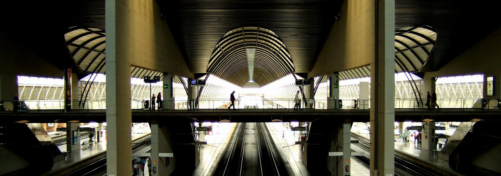 The Estacion de Santa Justa (Santa Justa train station) in Seville, Spain.